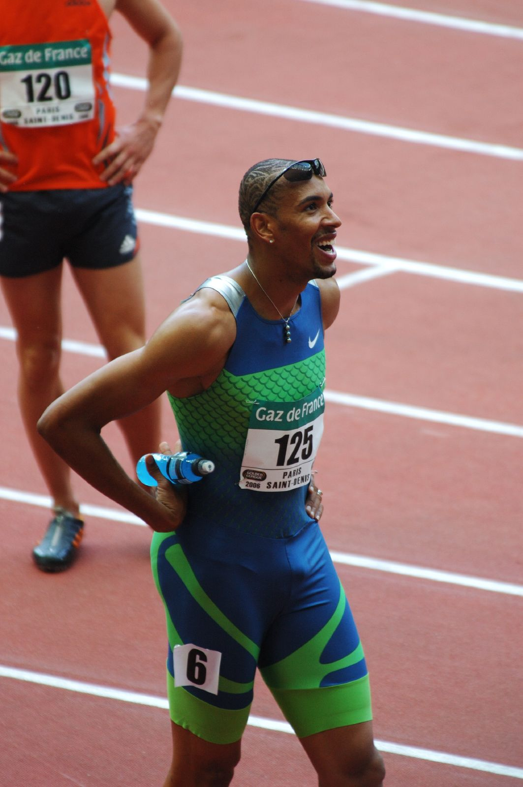 Naman Keïta at the Golden League 2006, Gaz de France, Paris Saint-Denis.